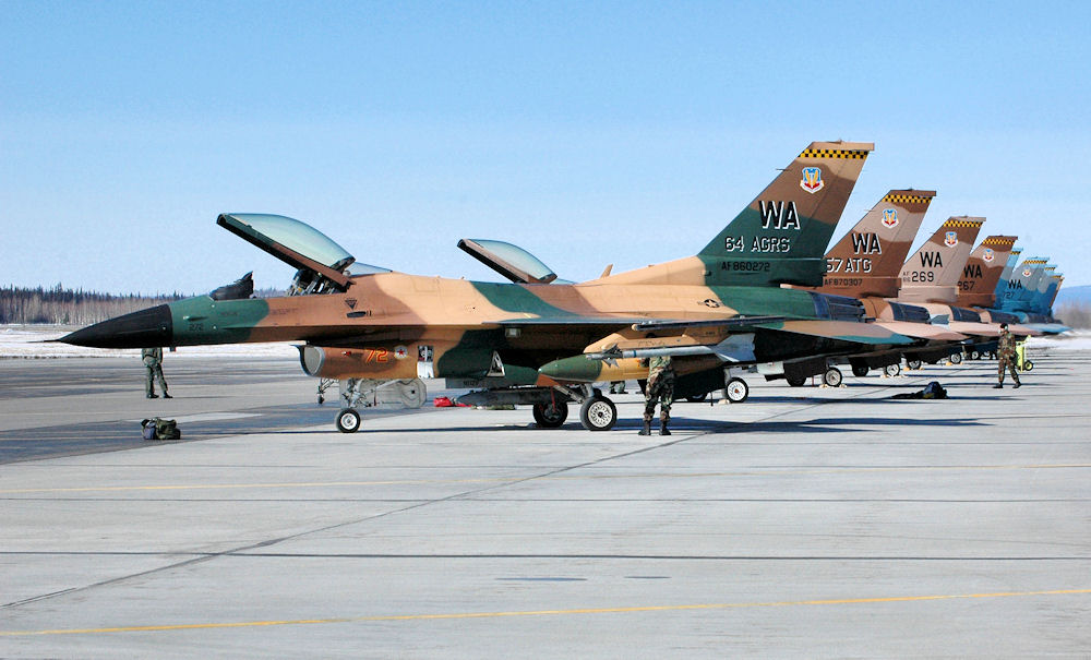 F-16, 57th Adversary Tactics Group